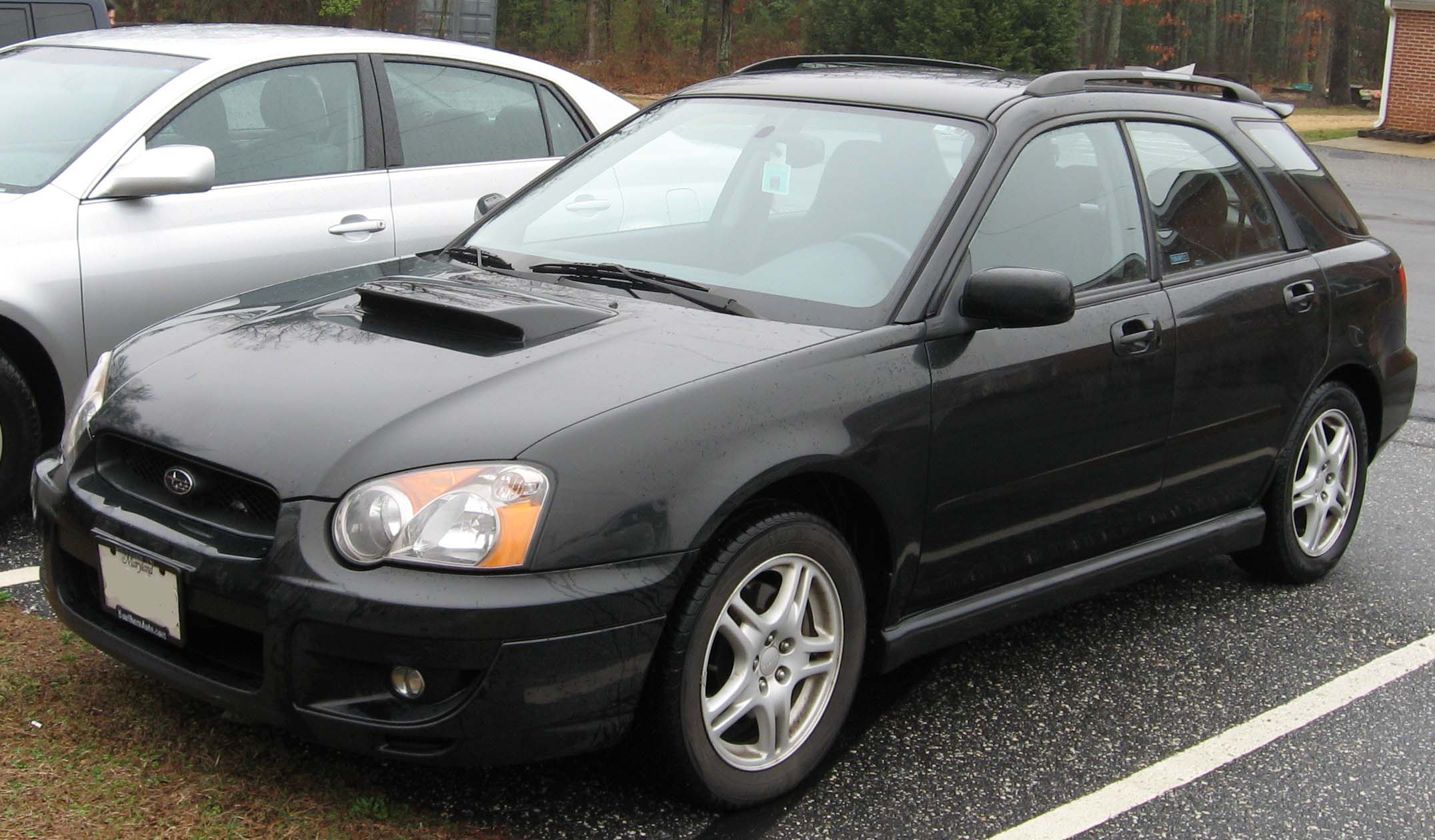 2004-2005 Subaru WRX wagon photographed in Waldorf, Maryland, USA.